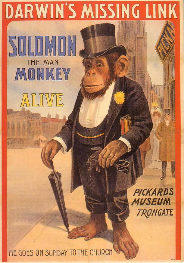 Darwin's Missing Link